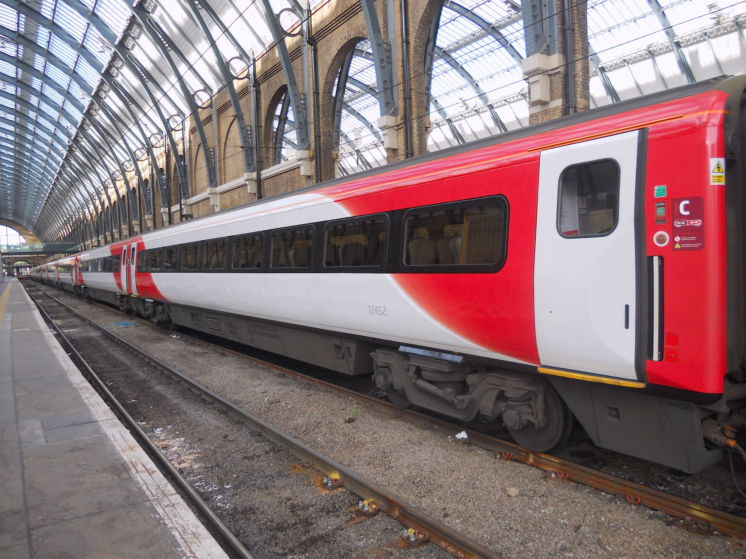 A rake of Mark 4 carriages in the Virgin Trains East Coast livery at London Kings Cross